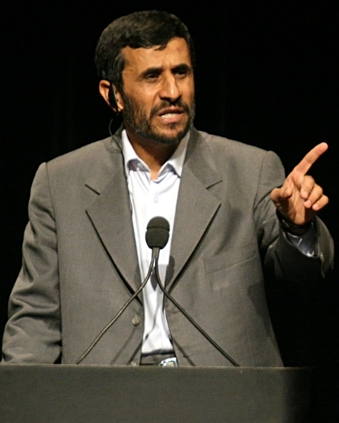 President of Iran @ Columbia University.